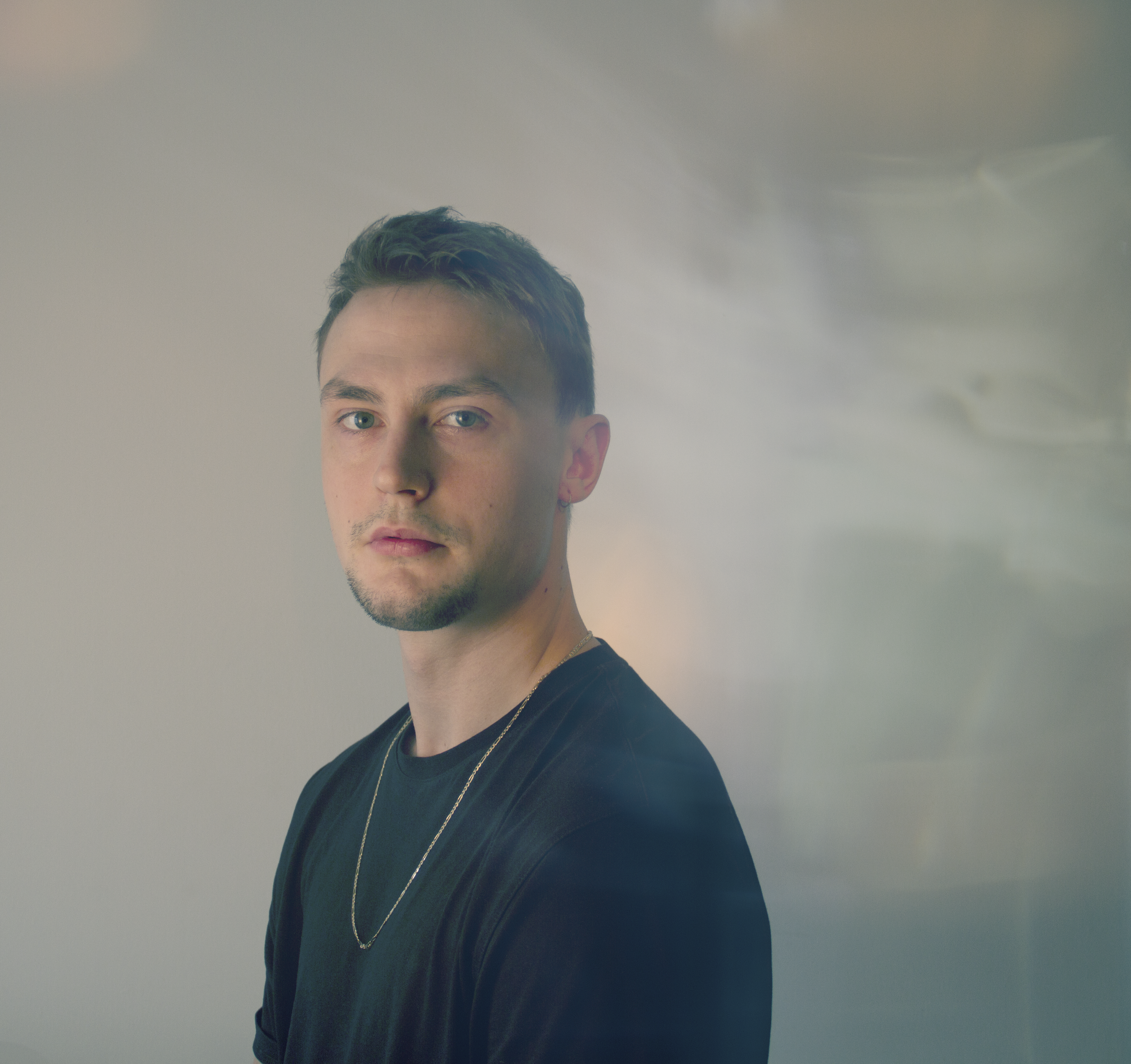 Press shot of Lapalux 2014 Other information